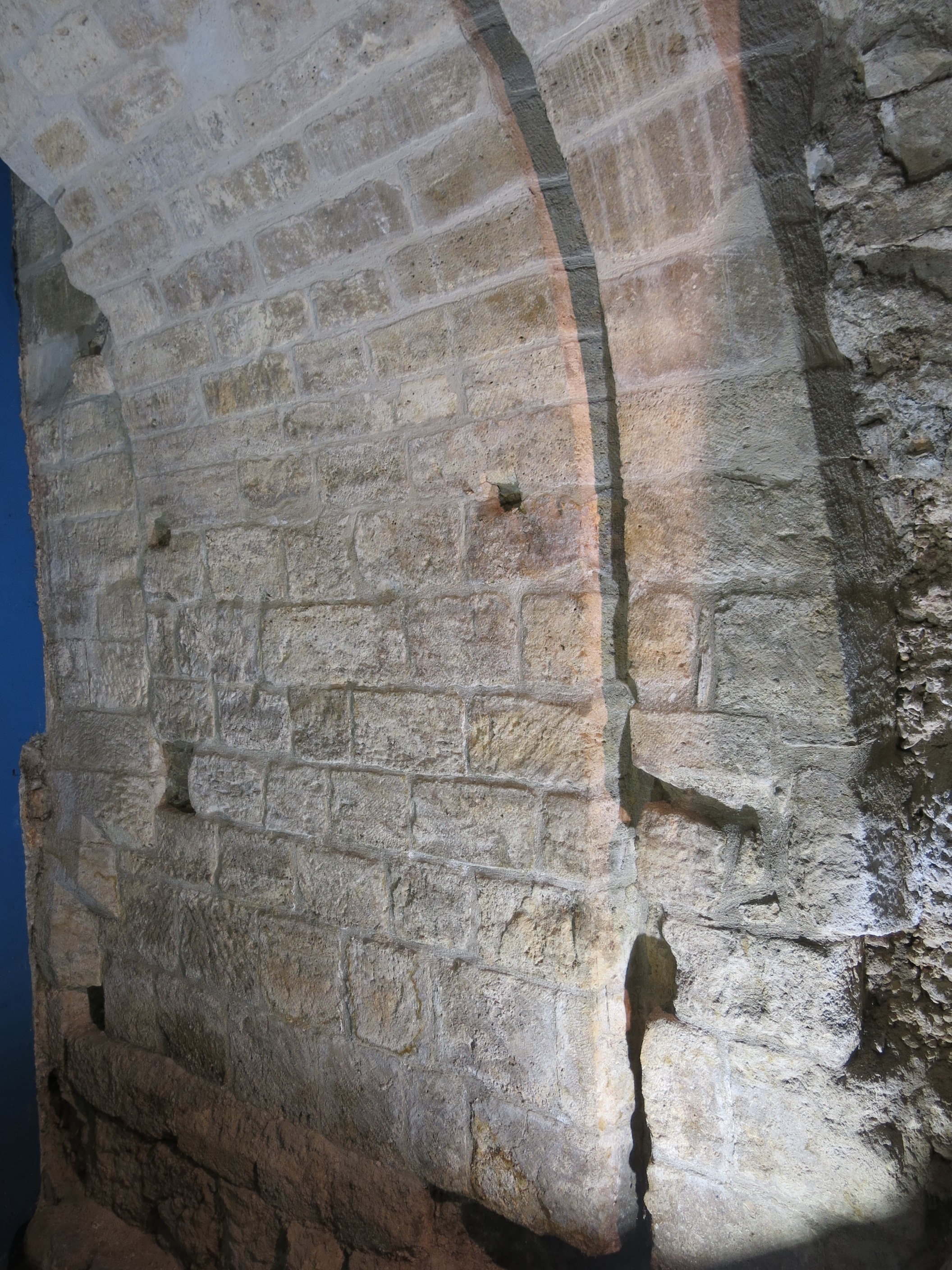 Side of the arch of the wall of Philippe Auguste with the groove for guiding a strong grid (Paris, 5th arrond., France).